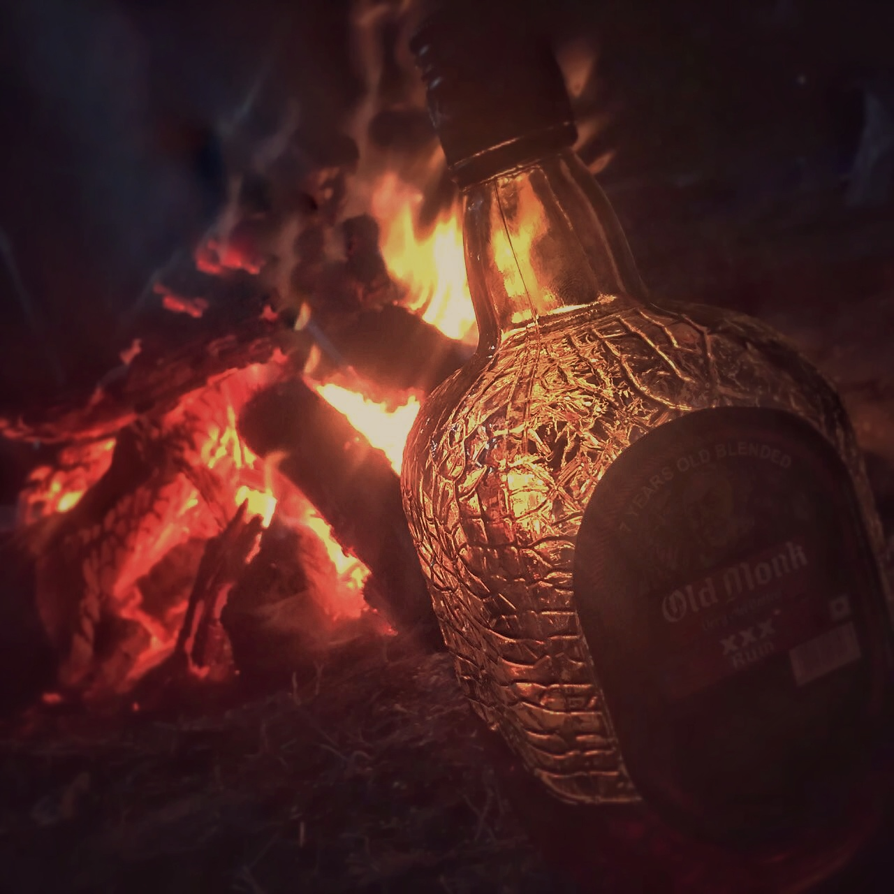 The Indian dark rum